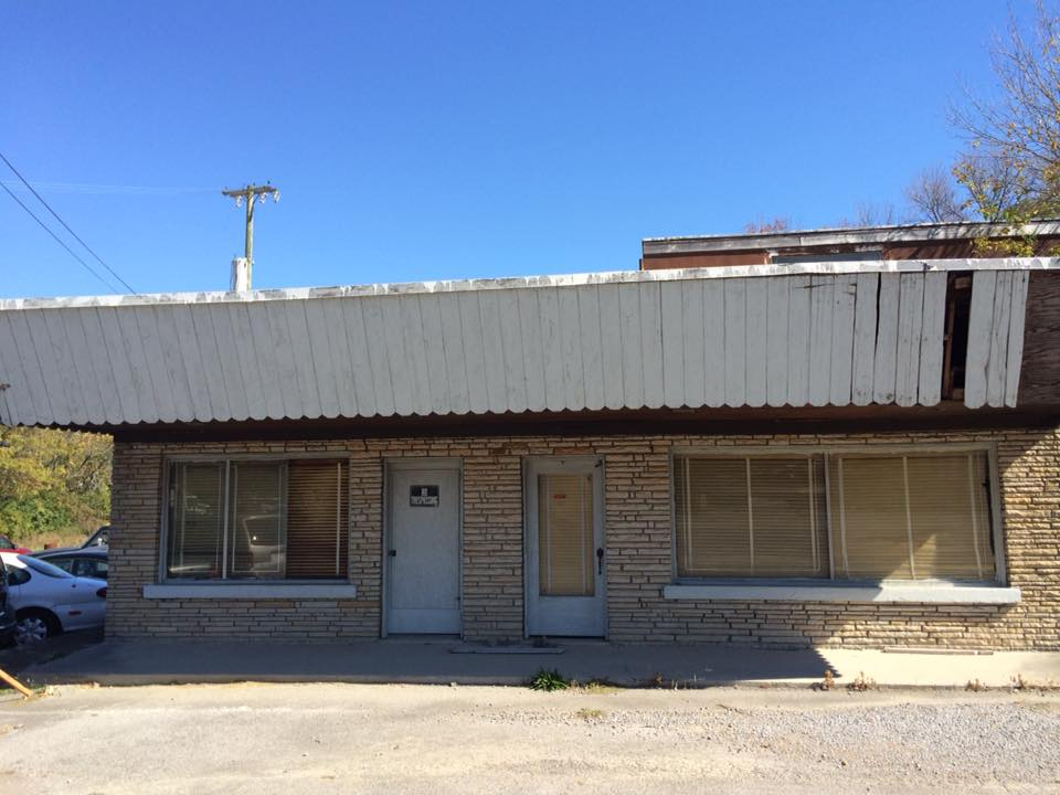 Abandoned location of Starday-King Sound Studios, 3557 Dickerson Pike, Nashville, Tennessee